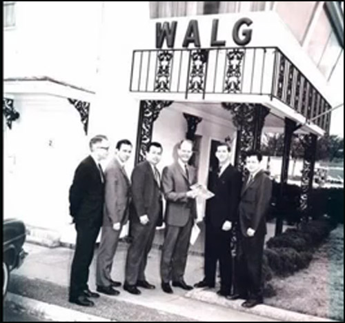 At the Holiday Inn Studio in the 1960's